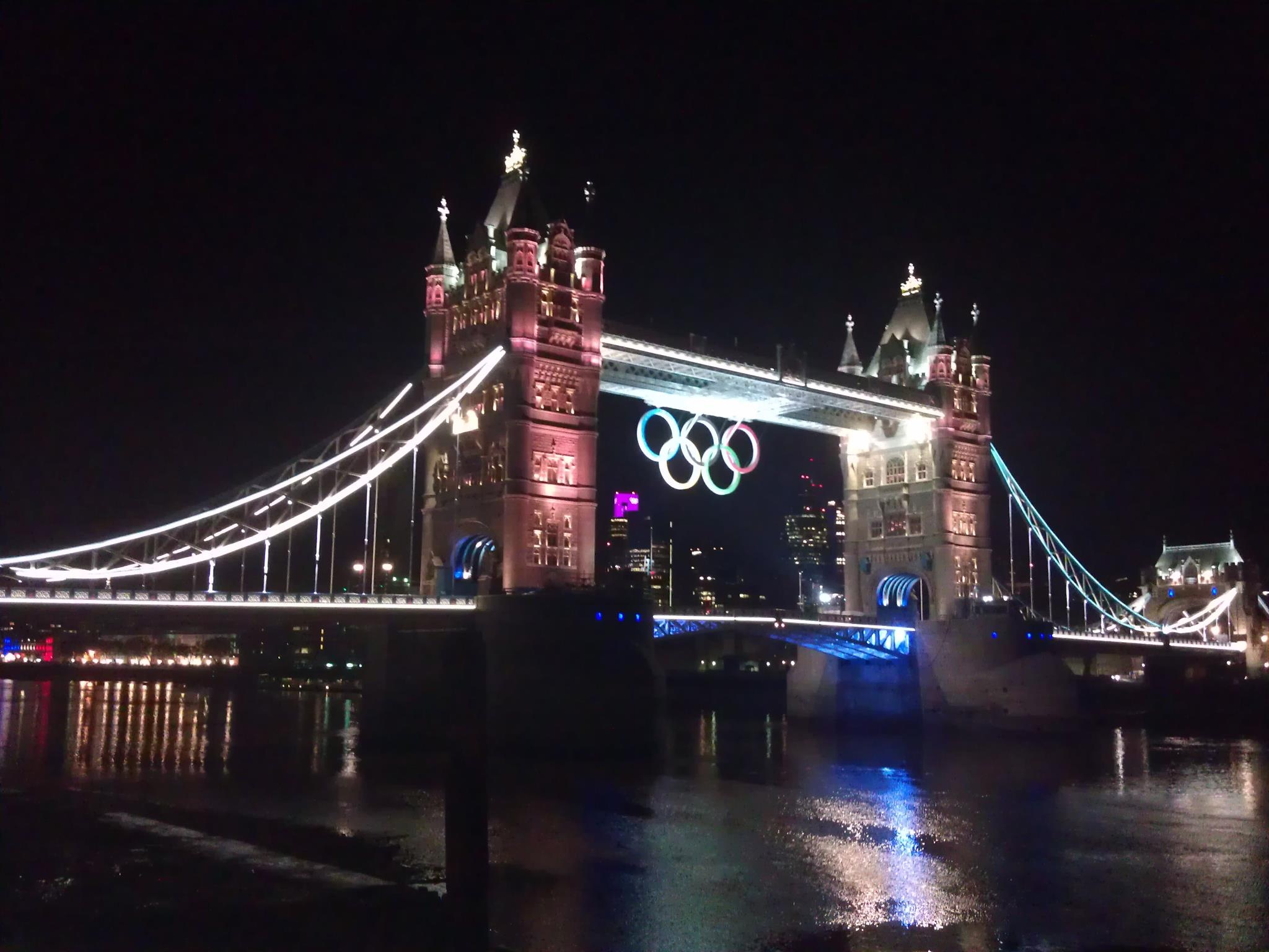 Privilege to Olympics 2012